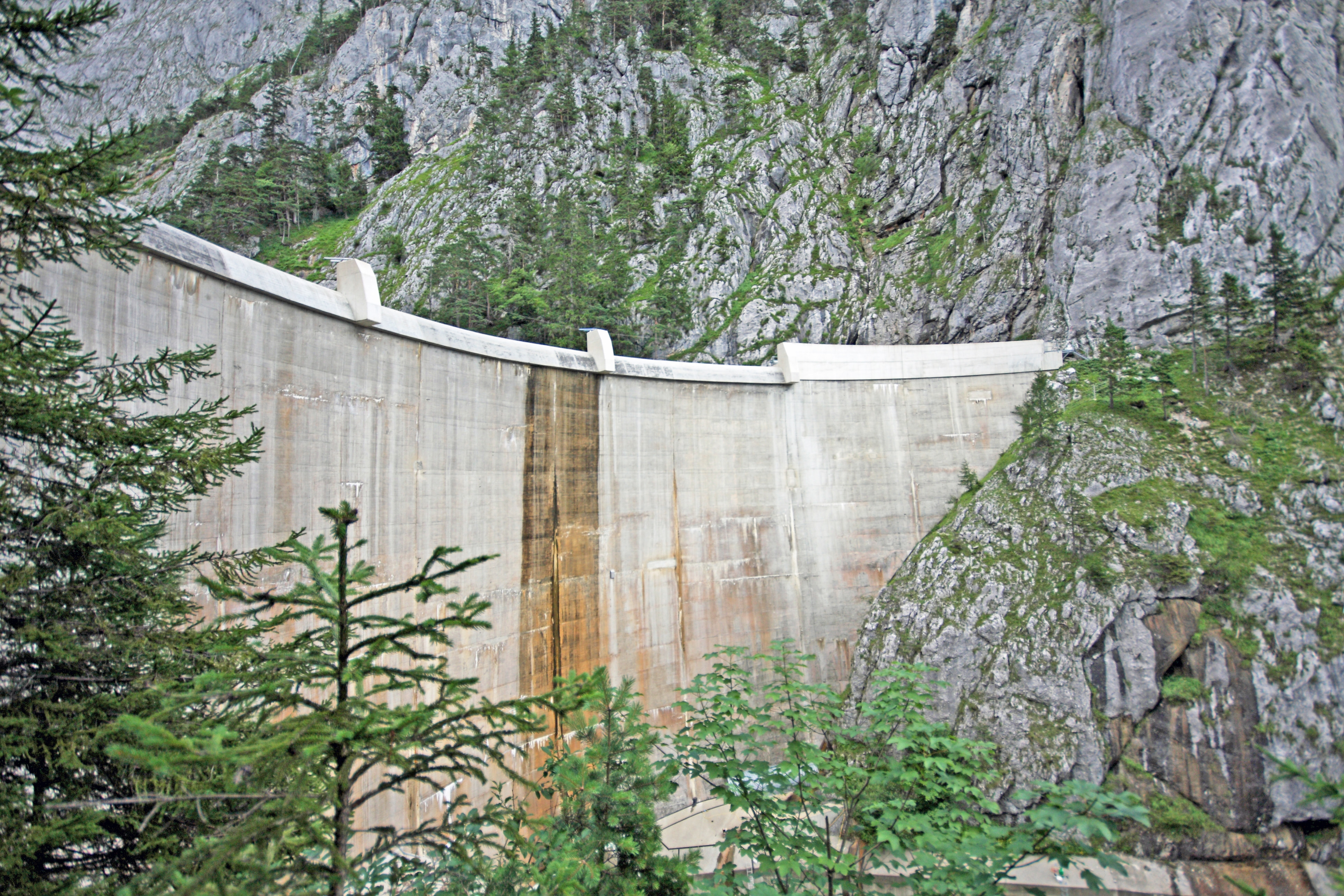 dam Salza , Liezen (district), Styria, Austria